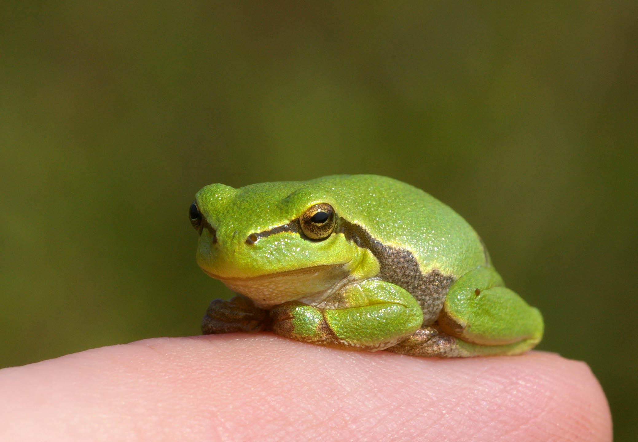 European Tree Frog (Hyla arborea); very young specimen (some weeks after metamorphosis, just around 14 mm long) sitting on a human finger.